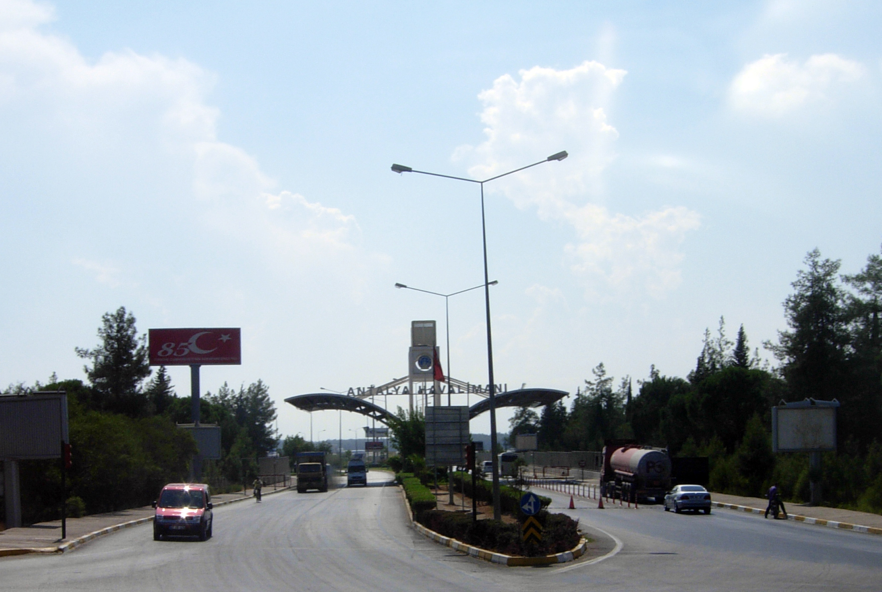 Antalya airport